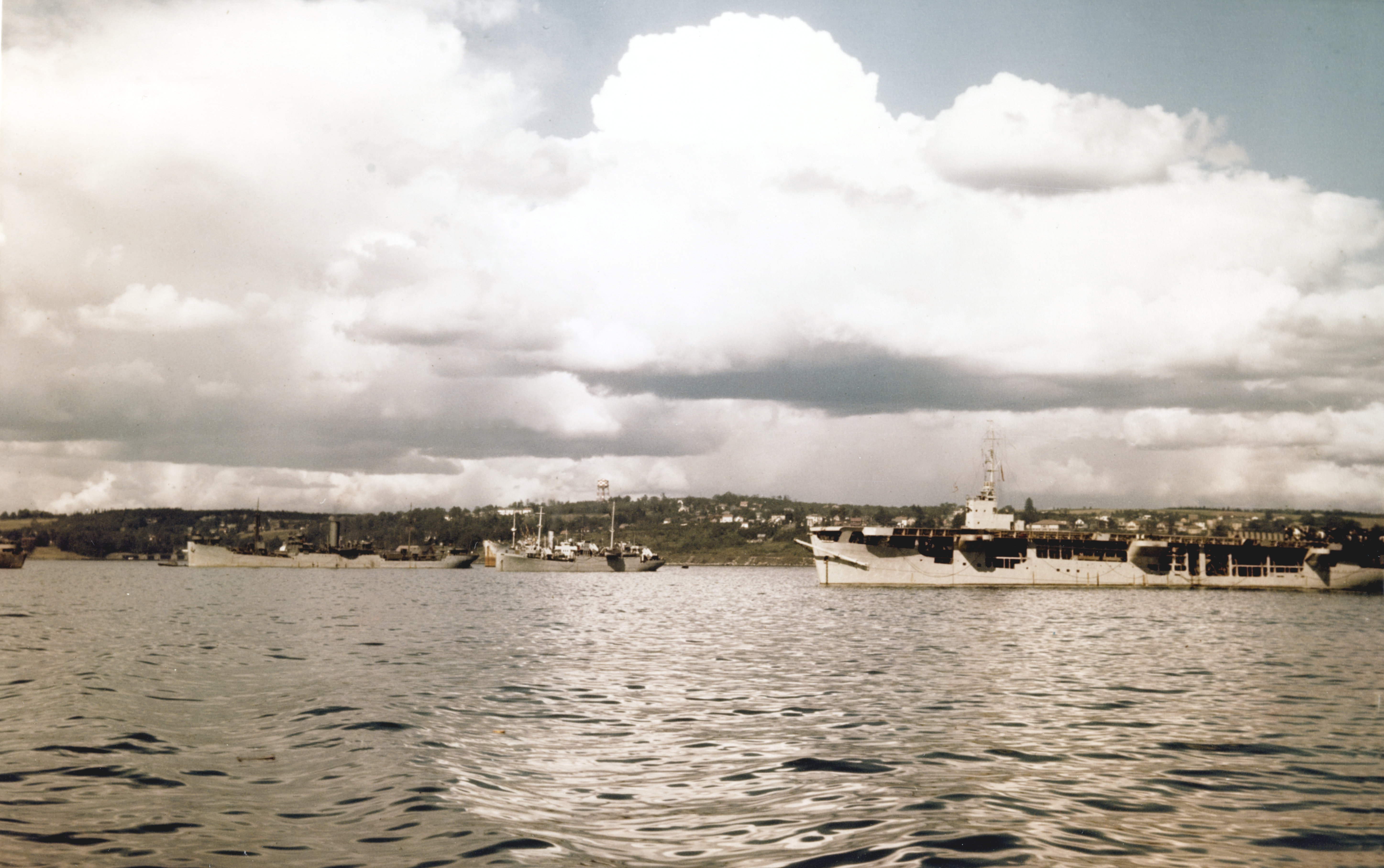 A British Royal Navy merchant aircraft carrier (tanker type) ship in an Atlantic port, in company with other merchant ships, during the Second World War.